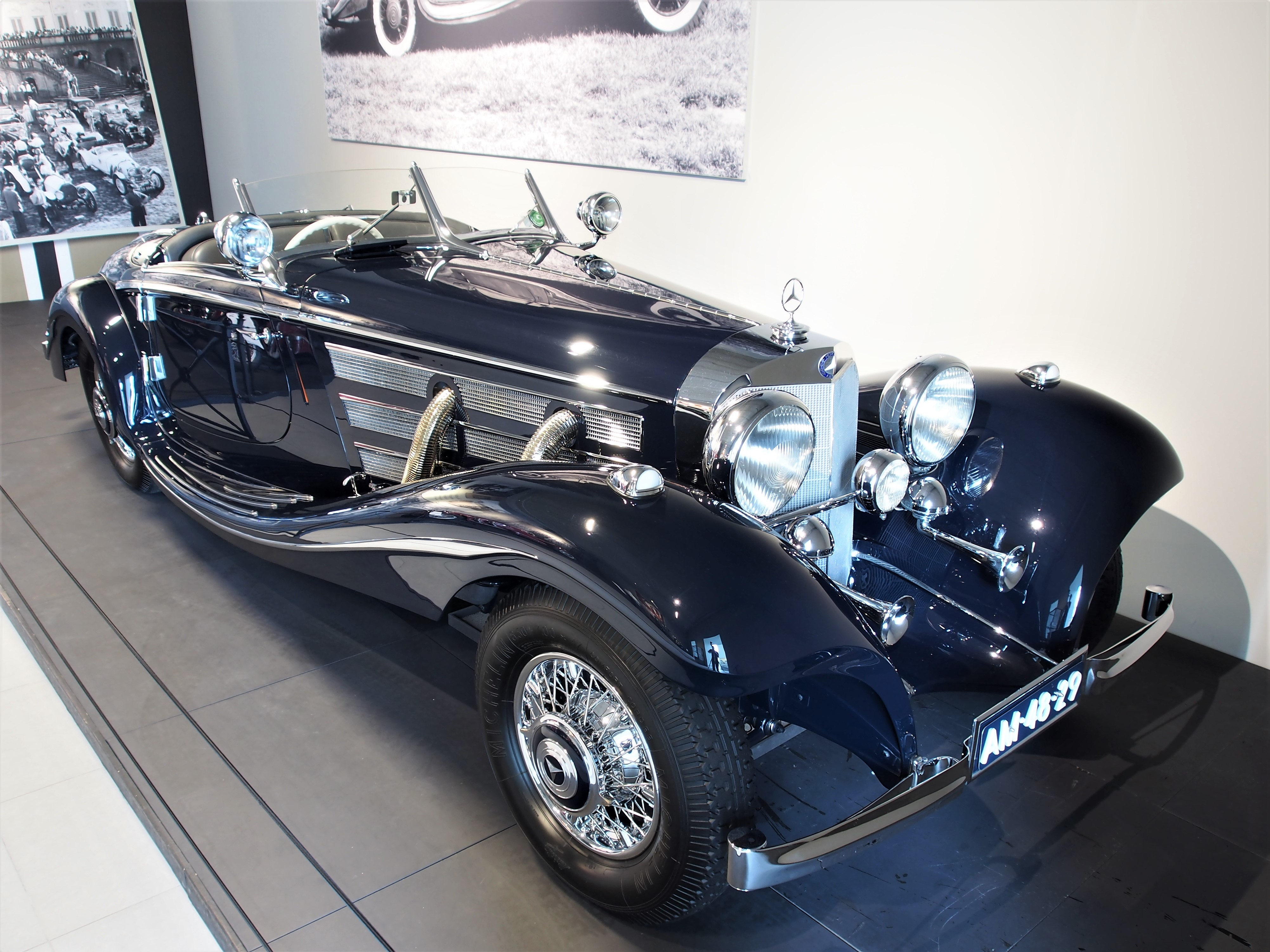 1936 Mercedes-Benz 500K Special Roadster photographed at the Louwman museum.